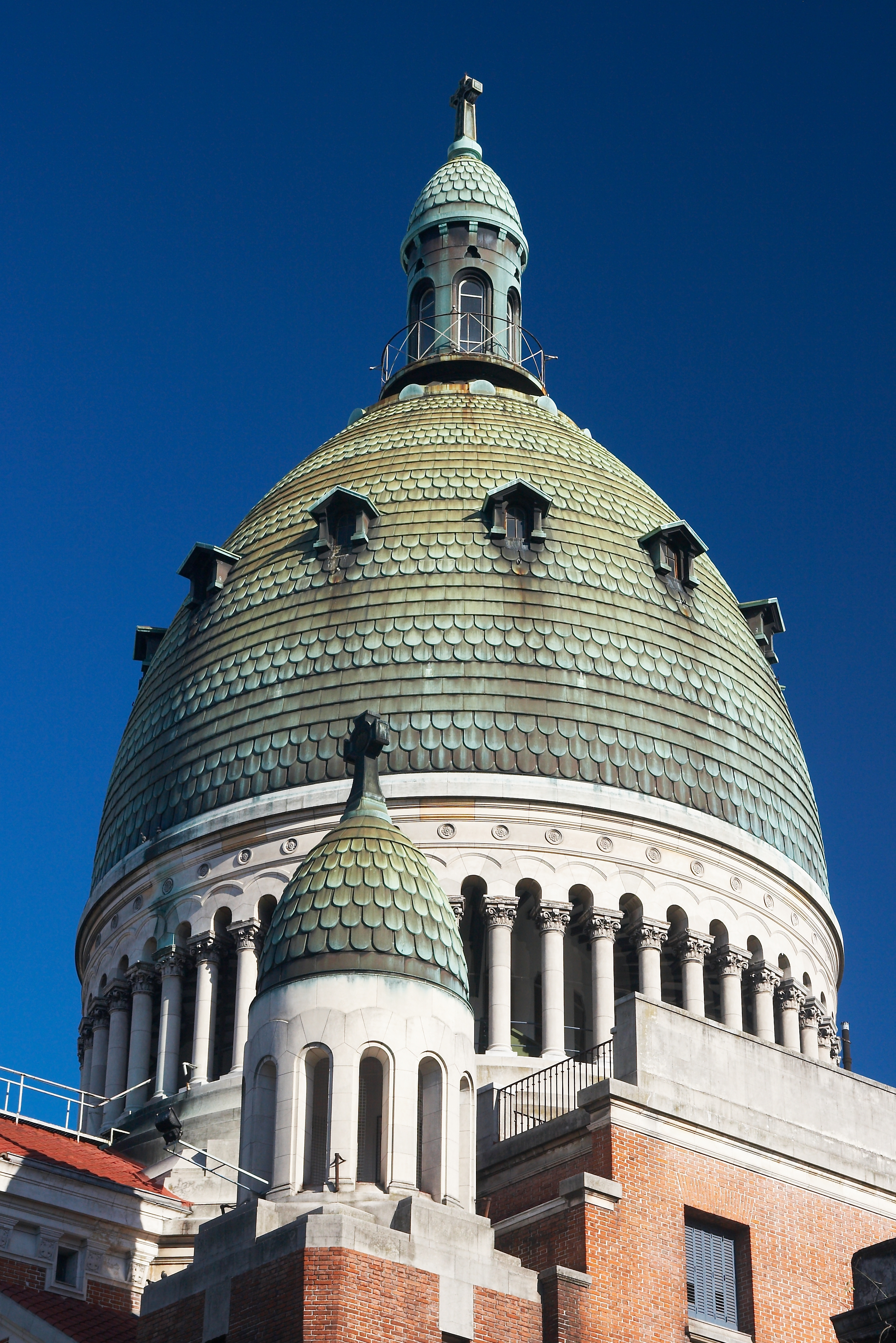 Santa Rosa de Lima basilica, Buenos Aires, Argentina.